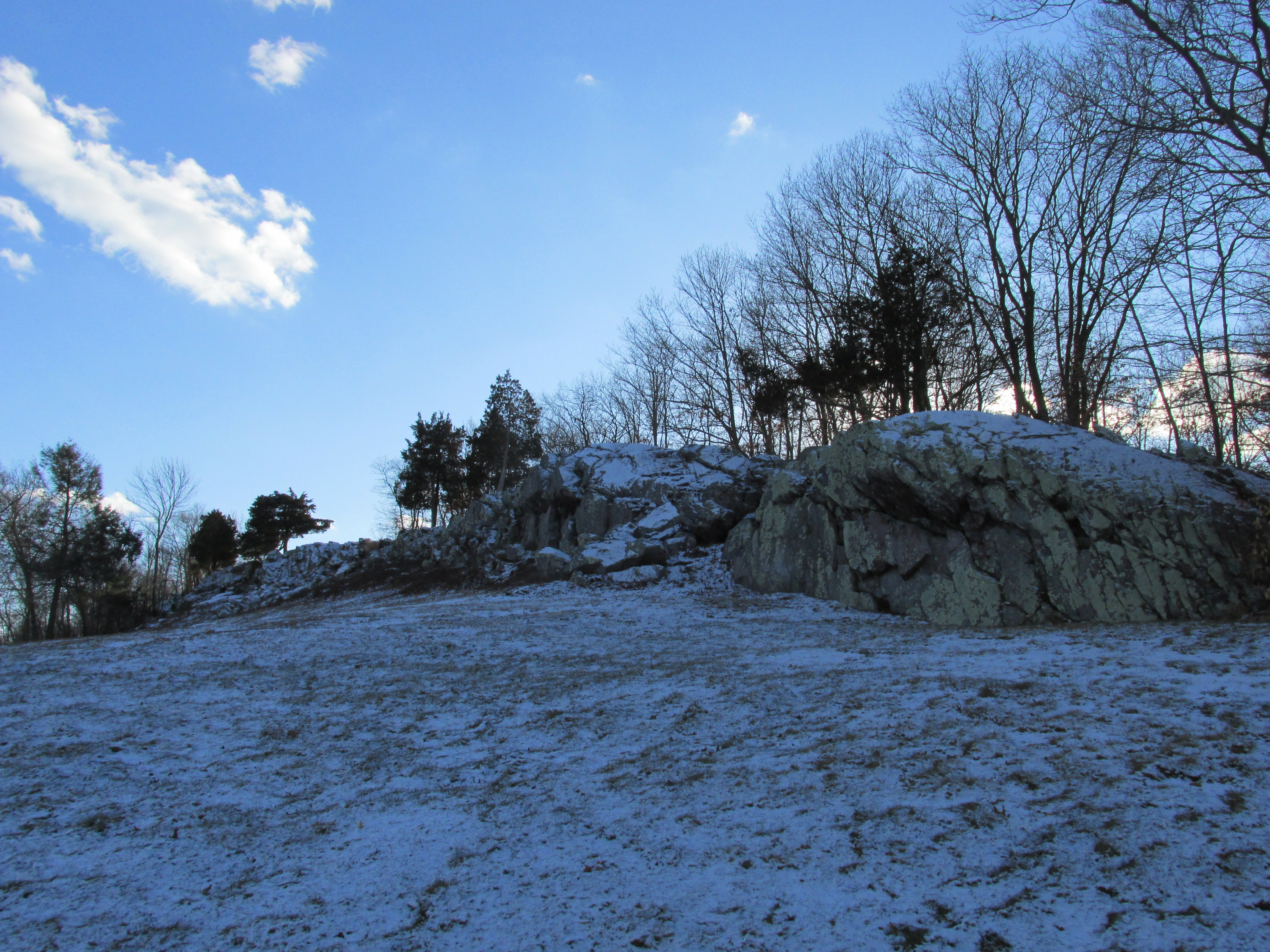 Signal Hill, Canton Massachusetts